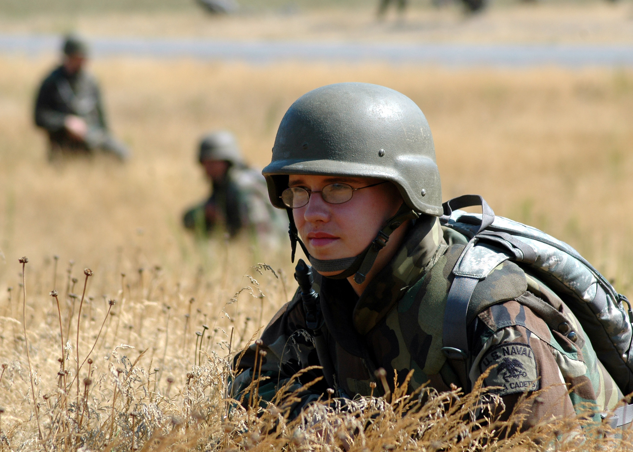 FORT LEWIS, Wash. (Aug. 23, 2008) Sea Cadet Petty Officer 2nd Class Ryan Nonnenmacher learns the skills of team maneuvers while on combat patrol. Nonnenmacher trained with Marines during U.S. Naval Sea Cadets field medical school, a three-week course combining Marine Corps doctrine, methods and equipment with medical education. (U.S. Navy photo by Mass Communication Specialist 1st Class Dave Gordon/Released)